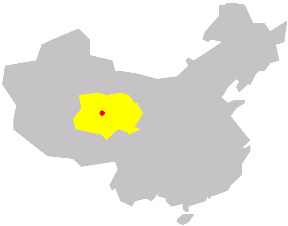 position of Golmud in China